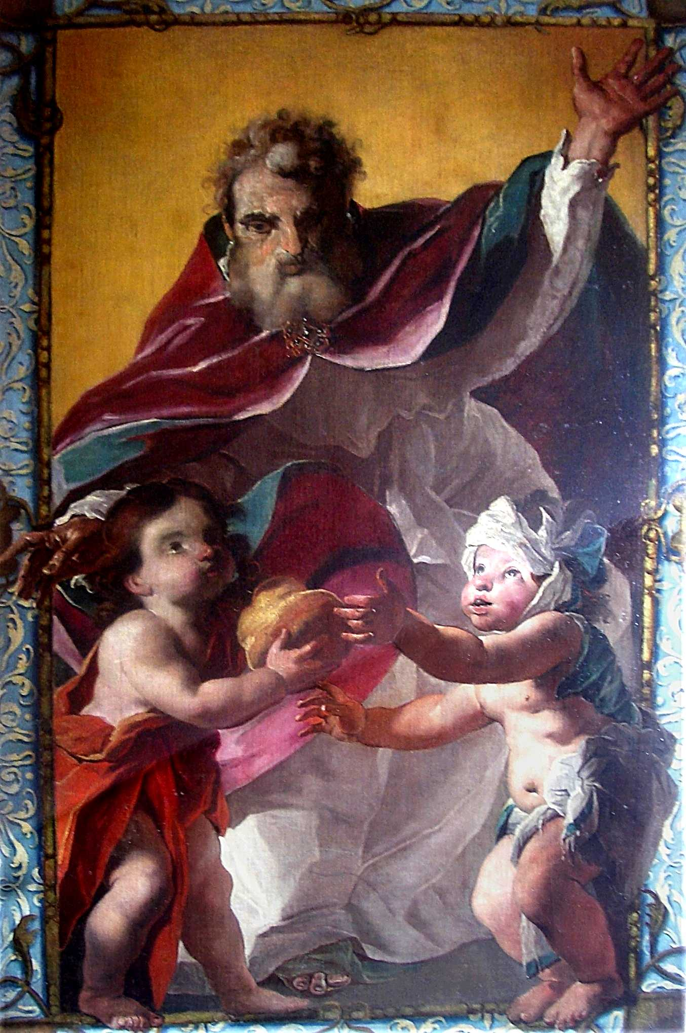 Paolo Pagani (Valsolda, 1655 – Milano, 1716), God the Father blessing and two children sharing a bread (Allegory of the Eucharist), oil on canvas, "Casa Pagani" museum, Castello Valsolda